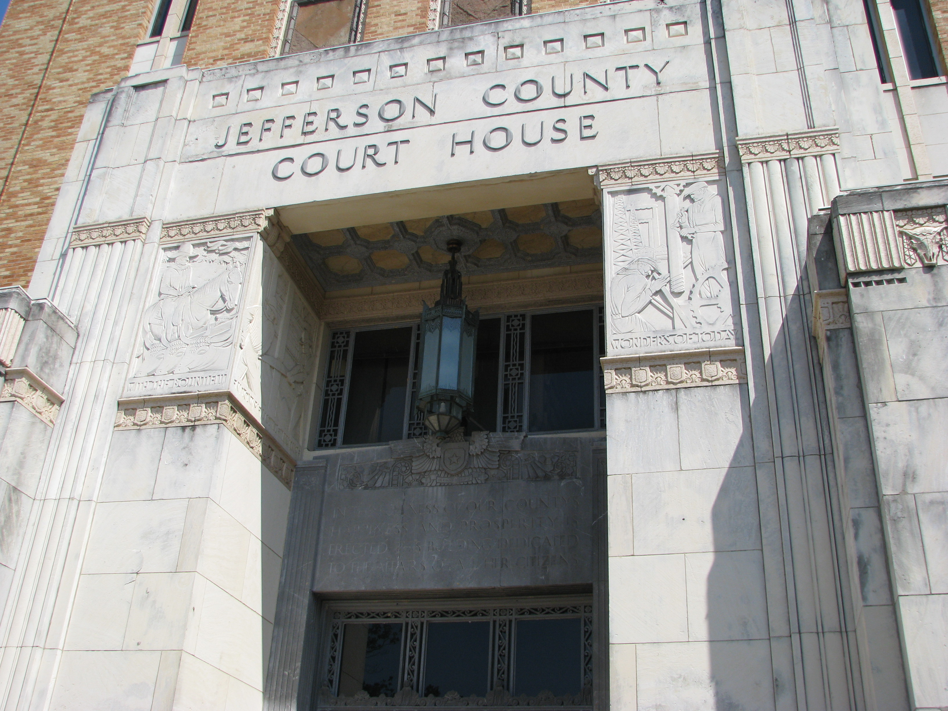 Entrance to the courthouse. (Note: For safety purposes, no one can enter through here now, the only entrance is through the annex.) Carved pictures read: (exterior) With the bountiful - (interior) endowments of nature... (Interior/not seen) - Man hath wrought the... (exterior) wonders of today. Words above door: In the fullness of our countys happiness and prosperity is erected this building dedicated the affairs of all her citizens.